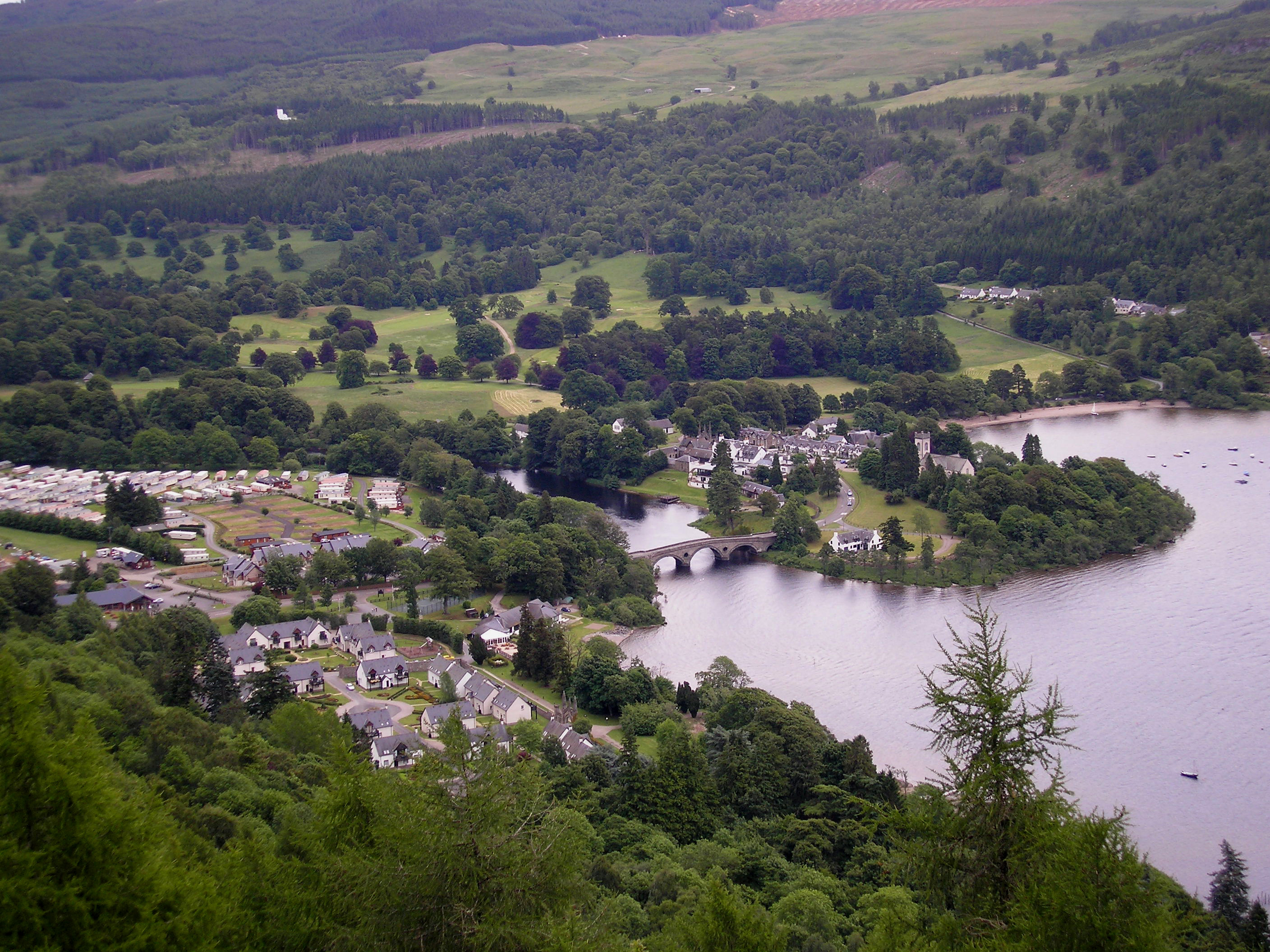 The village of Kenmore, Perth and Kinross, Scotland located on Loch Tay and by the emergence of the River Tay, taken from the Black Rock viewpoint.